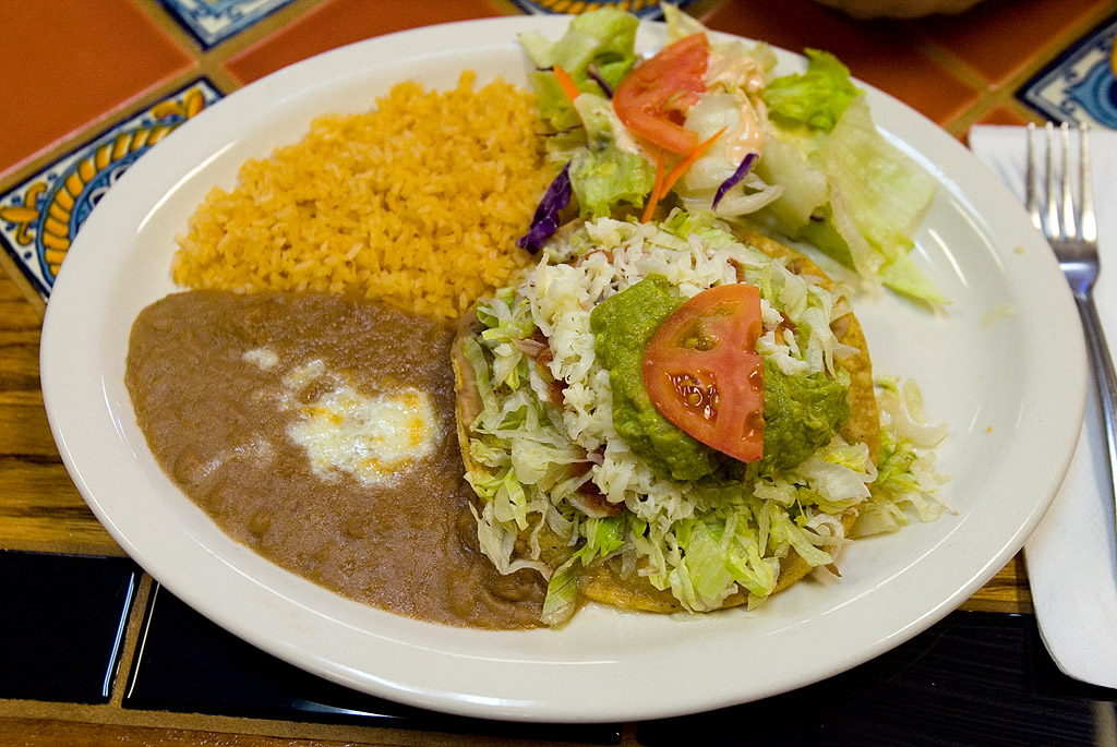 A beef tostada on a plate with refried beans, rice, and a salad as served by Los Compadres Mexican Restaurant at 944 C Street in Hayward, California, USA. The photographer describes the scene as: "A crispy flat corn tortilla shell topped with beef, beans, lettuce, taco sauce and cheese. All platters served with rice, beans and salad with house dressing."Beef tostada at Los Compadres